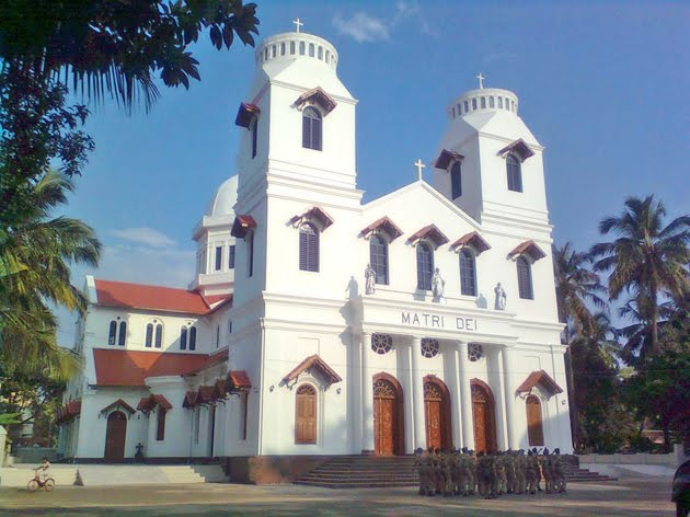 Mother of God (Matri Dei) Cathedral, Calicut